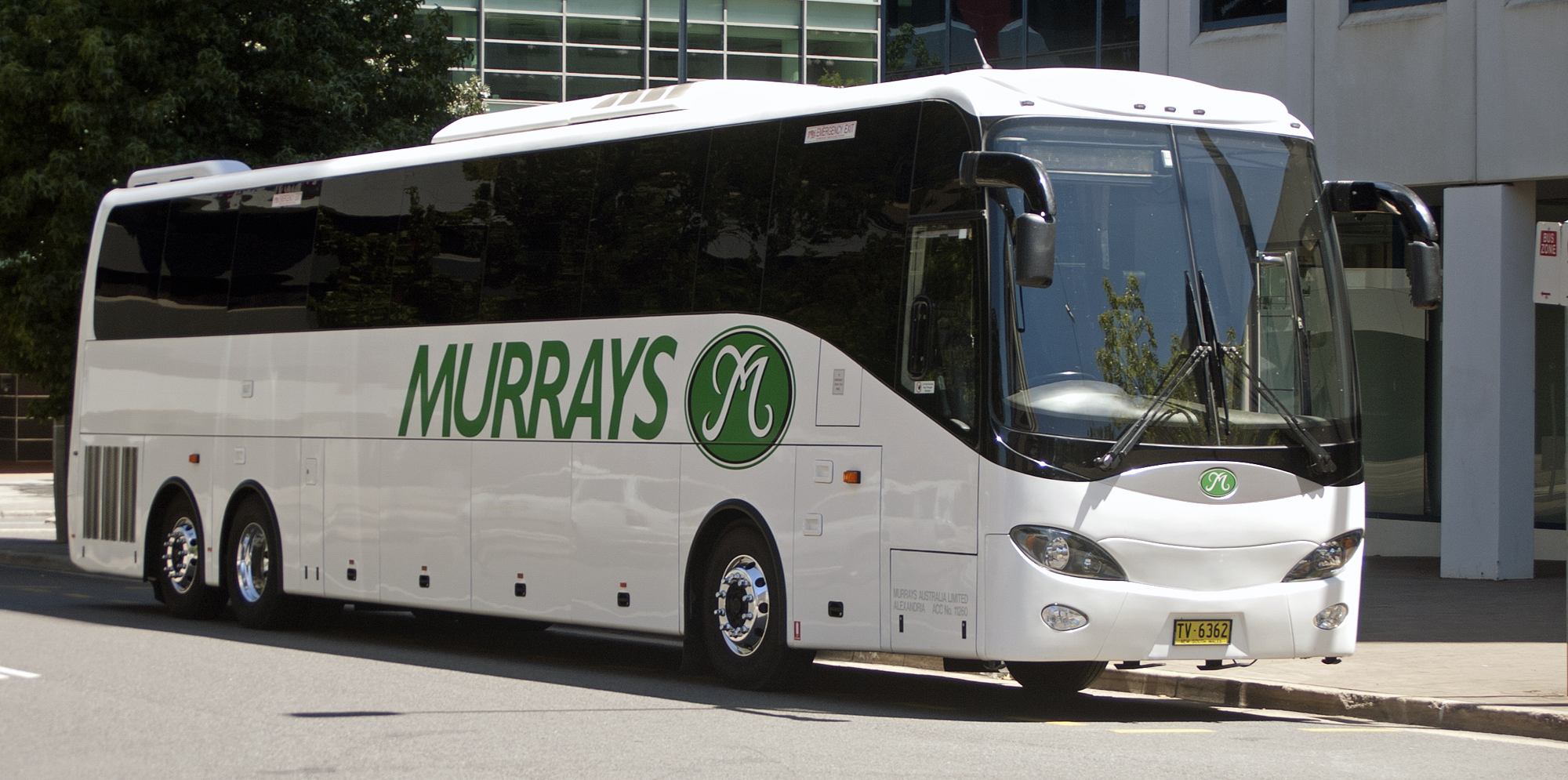 Murrays Coaches - BCI JXK6137 'Explorer' parked in Rudd Street in Canberra.